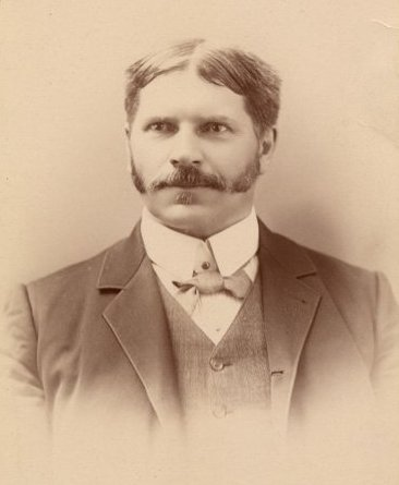 Joseph-Adolphe Chauret, Quebec politician